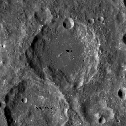 Hertz (lunar crater) LRO-WAC image